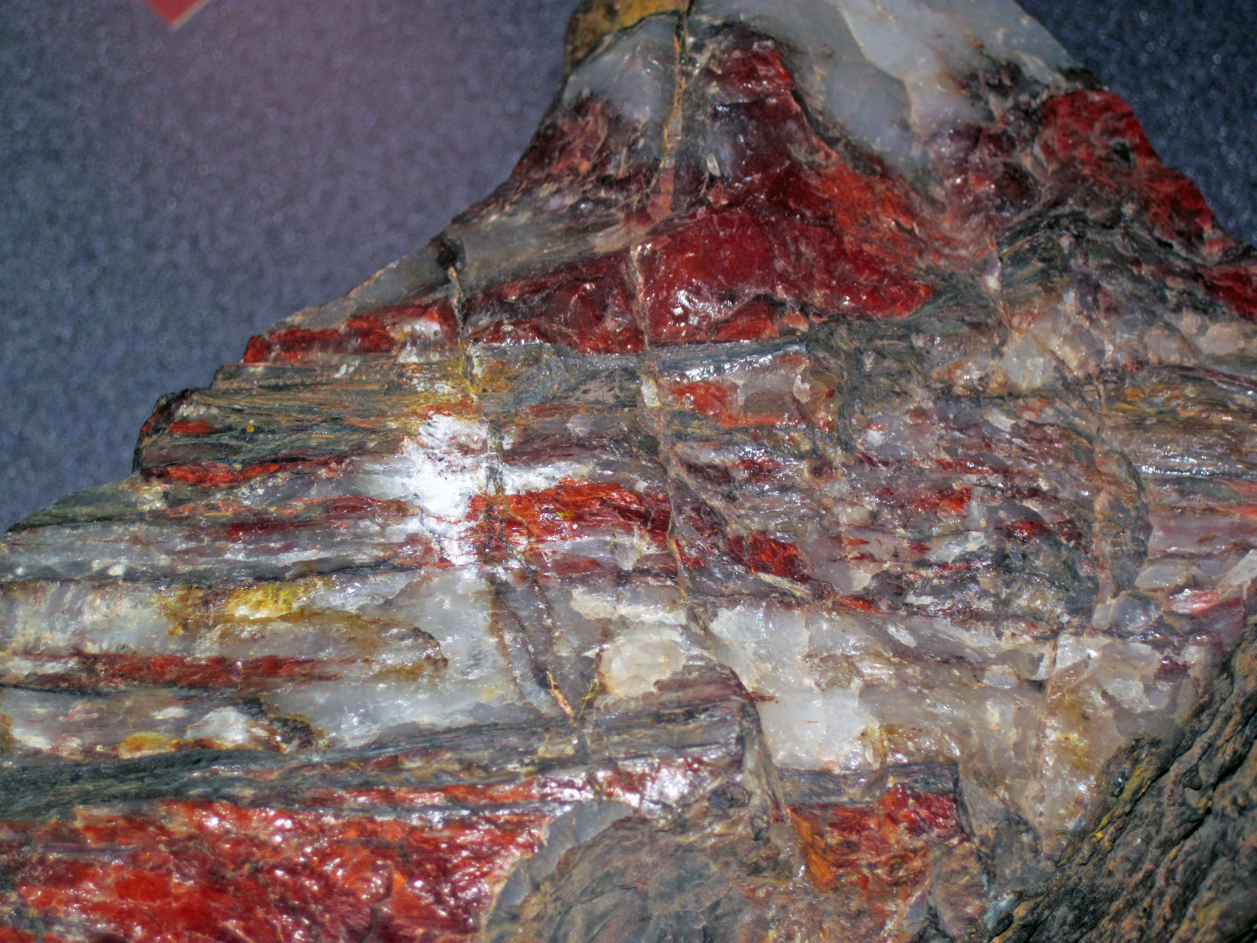 Binghamite from the Precambrian of Minnesota, USA. (public display, Minnesota Discovery Center, Chisholm, Minnesota, USA) Binghamite has been characterized as a mineral, or as a variety of quartz, but it is not. Binghamite is a rock having chalcedony (= microscopic fibrous quartz) intergrown with fibrous iron oxide - hematite and/or goethite. Some sources say that binghamite is chalcedony replacement of fibrous goethite-hematite. This material has chatoyancy - the same play of light and color as seen in tiger's eye quartz, which also has a fibrous structure. Apparent synonyms, or near-synonyms, of binghamite include silkstone and cuyunite. Locality: iron mine in the Cuyuna North Range (probably near the town of Crosby), Crow Wing County, central Minnesota, USA